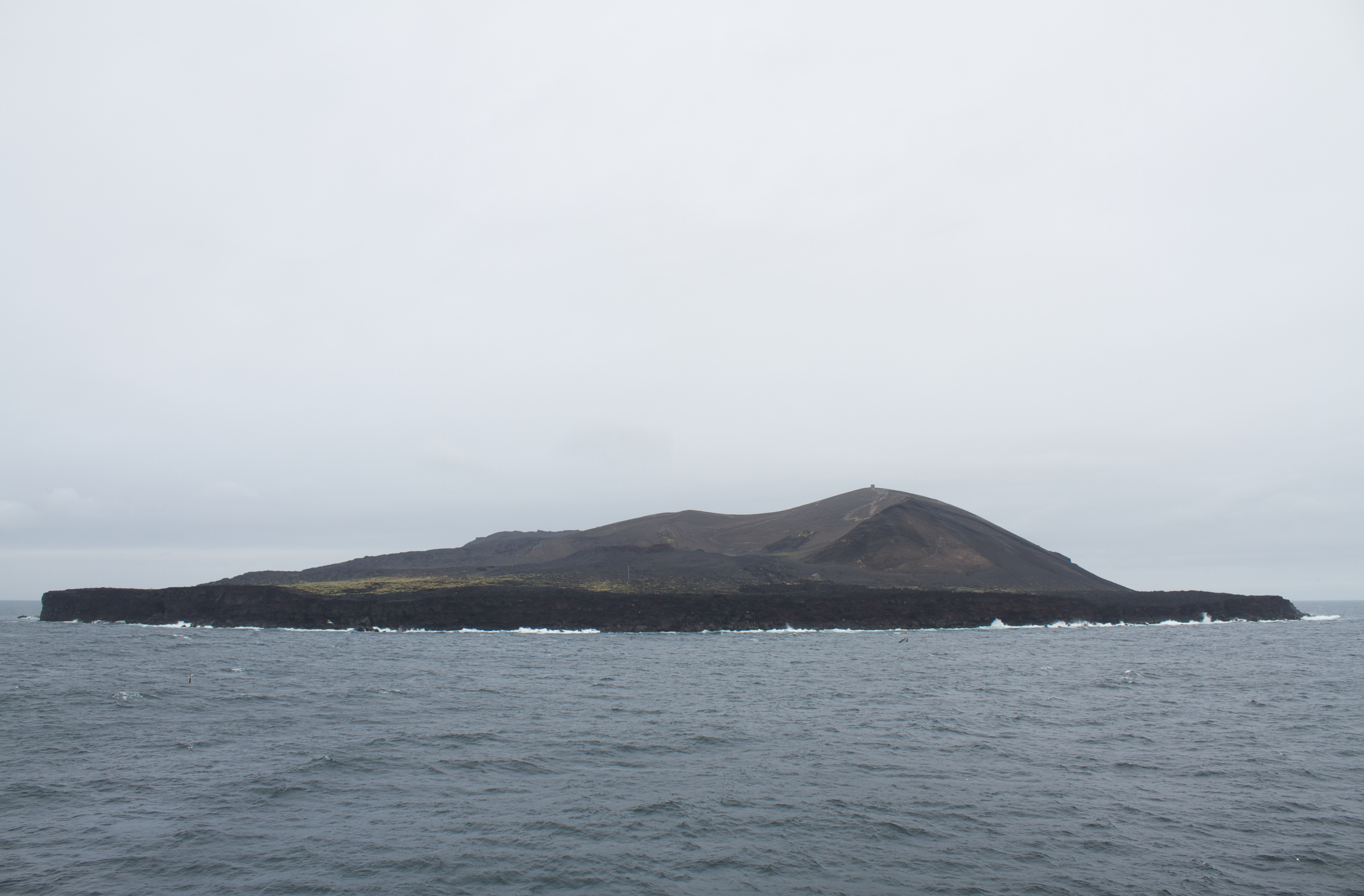 Island of Surtsey in 2014 photographed from the boat.